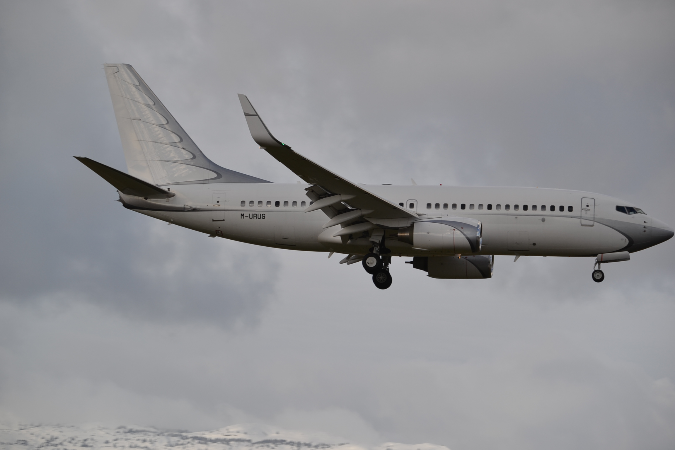 Boeing BBJ arriving at Geneva-GVA, 24/01/14.